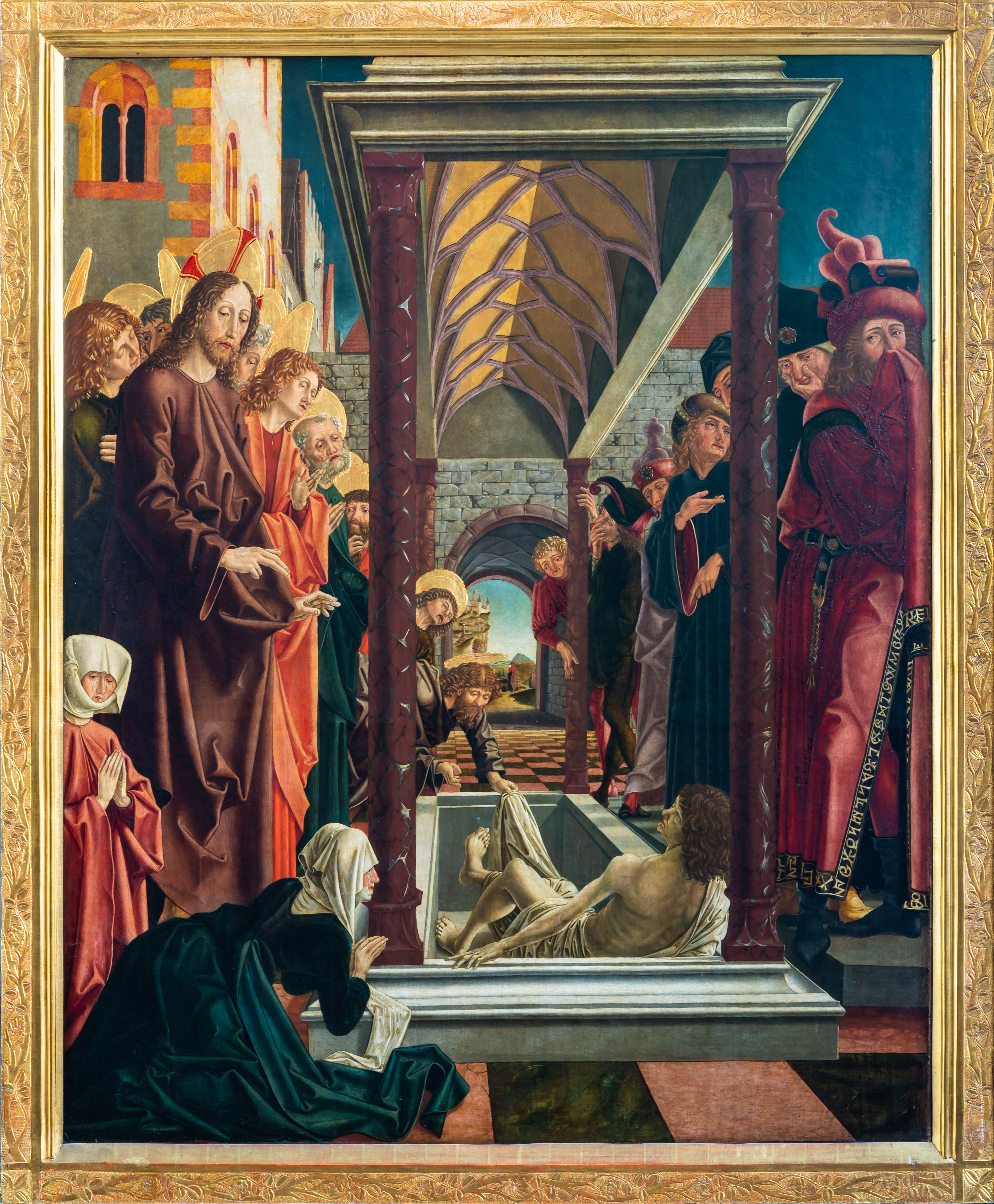 The Raising of Lazarus at the St. Wolfgang Altarpiece of the Catholic parish- and pilgrimage church St. Wolfgang im Salzkammergut, Upper Austria. Michael Pacher, 1471–79, set up in 1481.